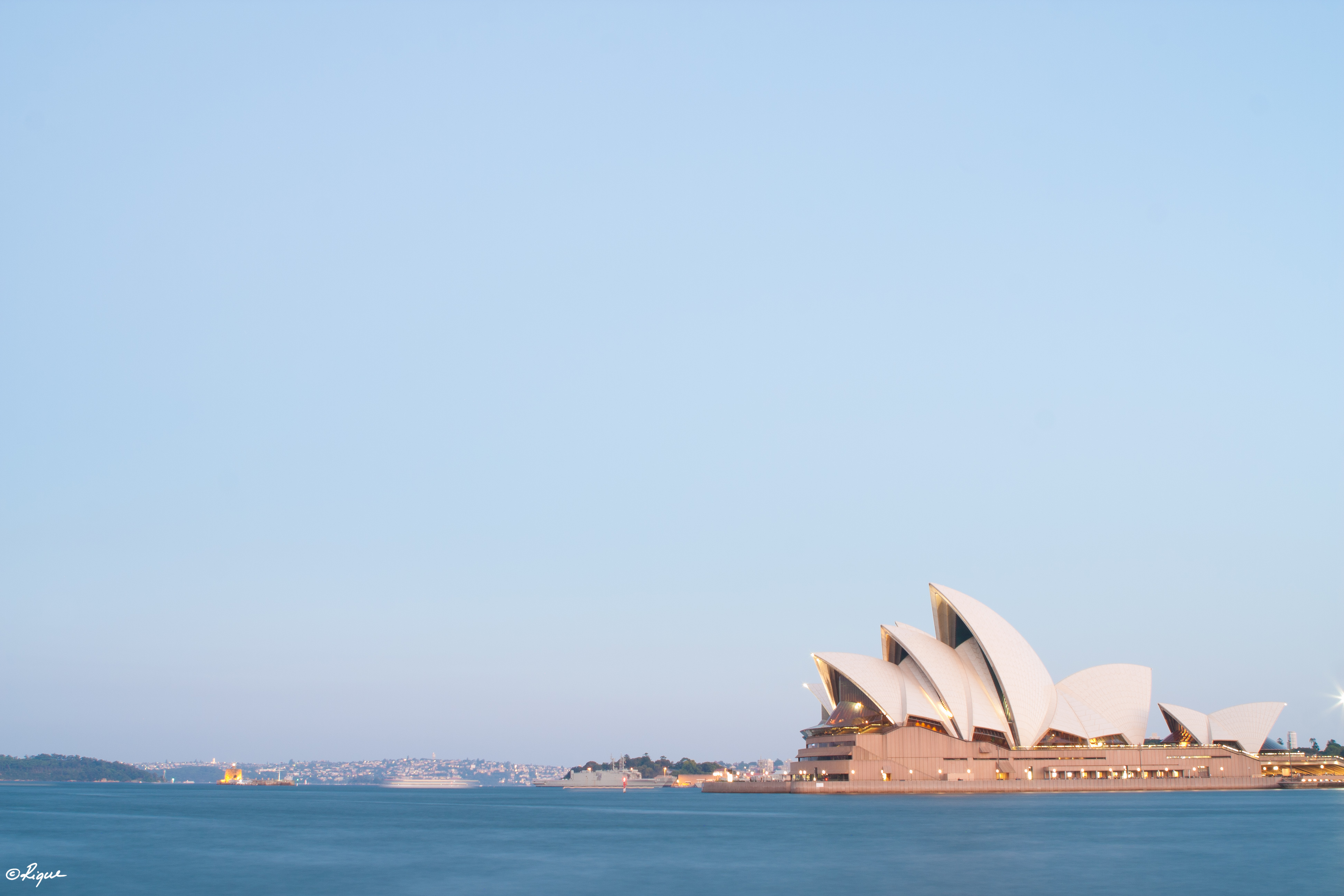 The Sydney Opera House seen from Dawes Point.